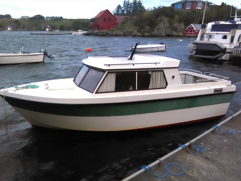 Picture 2014 Karmøy